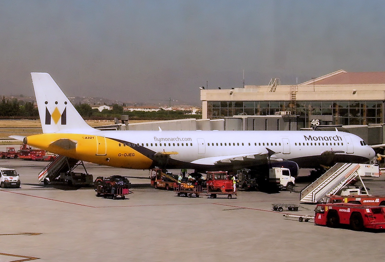 View of apron at Malaga Airport, showing a Monarch Airlines Airbus A321 (G-OJEG) parked up at stand